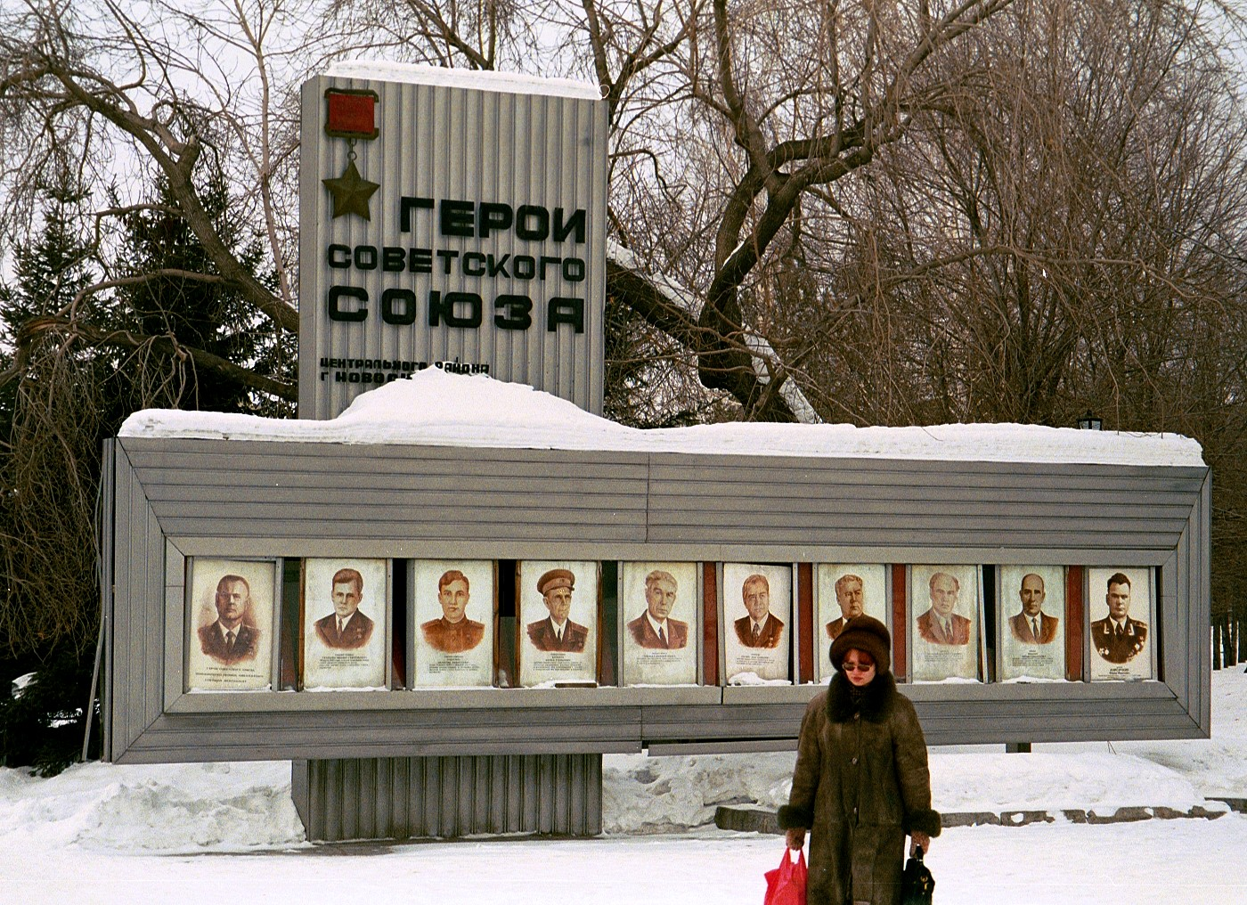 Display case with portraits of heroes of the Soviet Union, Novosibirsk, Russi